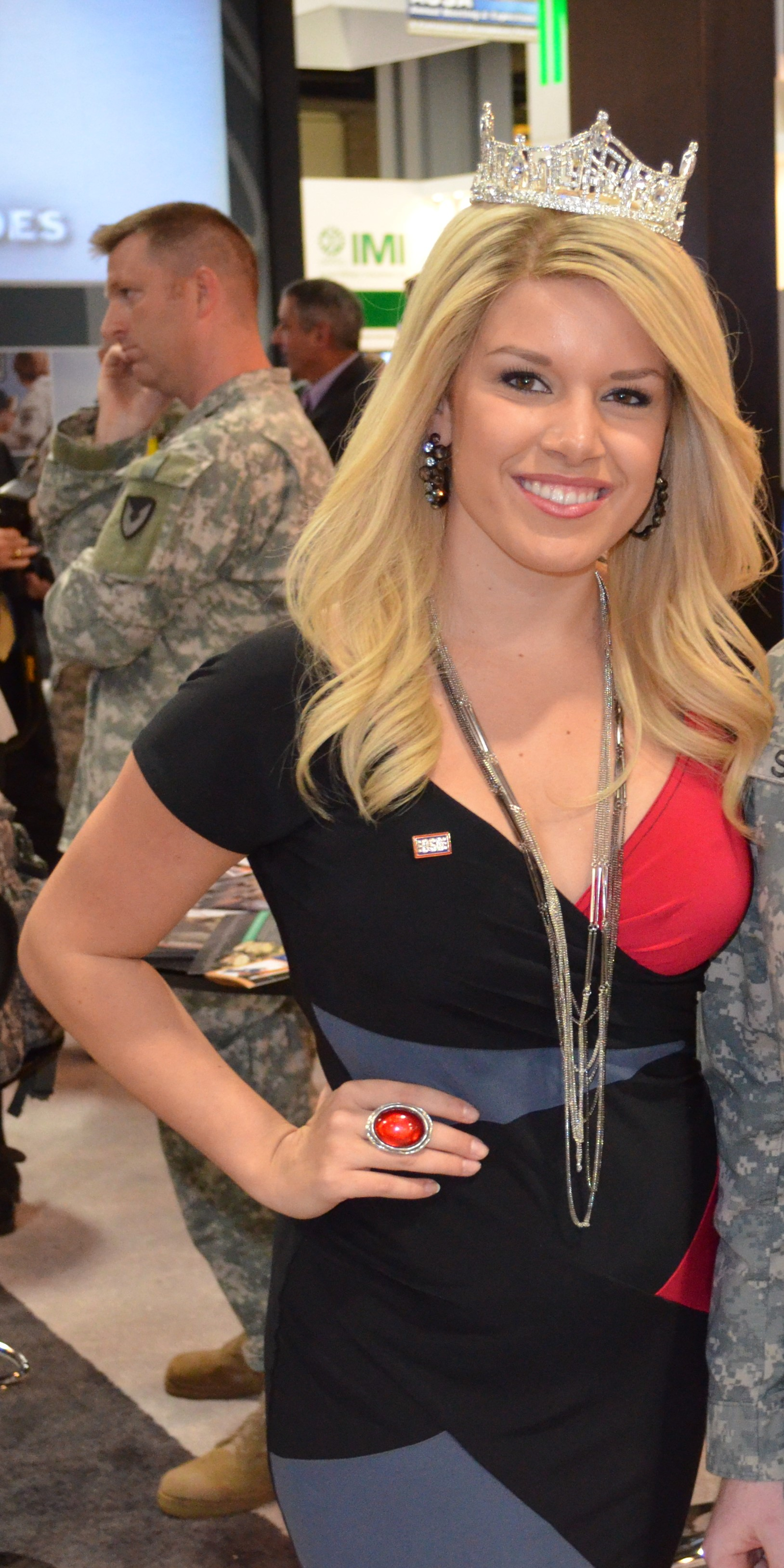 Miss America 2011 Teresa Scanlan at the AMC booth during the Association of the United States Army National Convention.